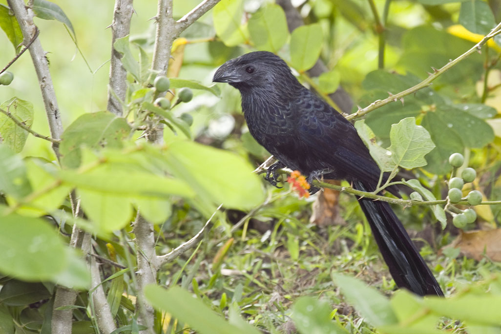 Crooked Tree Wildlife Sanctuary, Belize